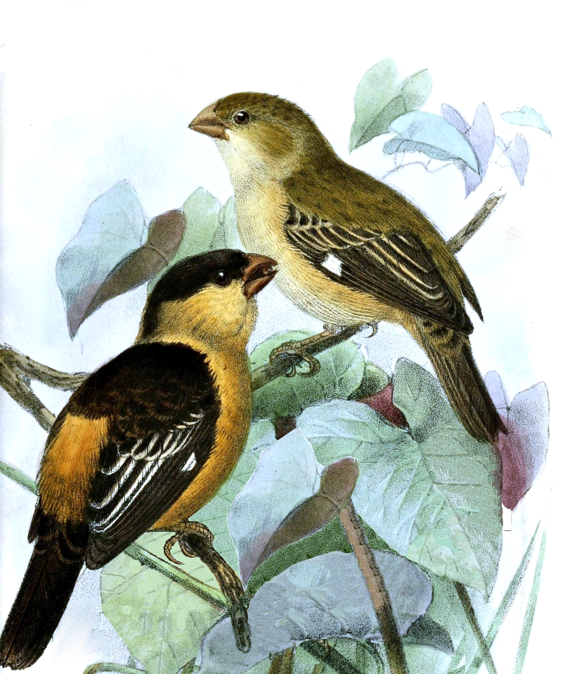 « Spermophila nigrorufa » = Sporophila nigrorufa (Black-and-tawny Seedeater) - male and female